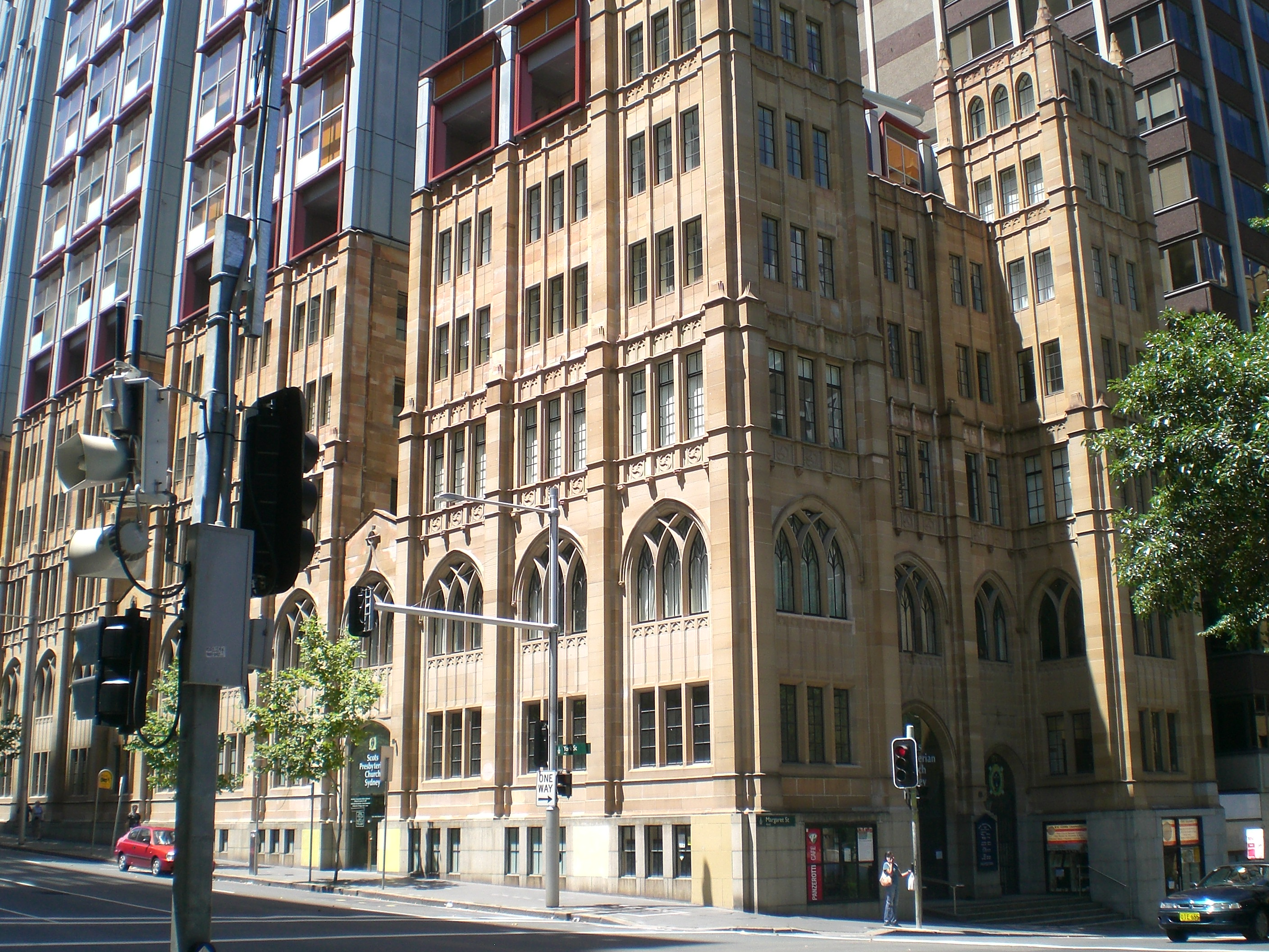 Comparison historic photograph here: This gives a slightly better view of the building than this one: I rushed this a bit today, I am sure that a better pic can be had from someone with more time.